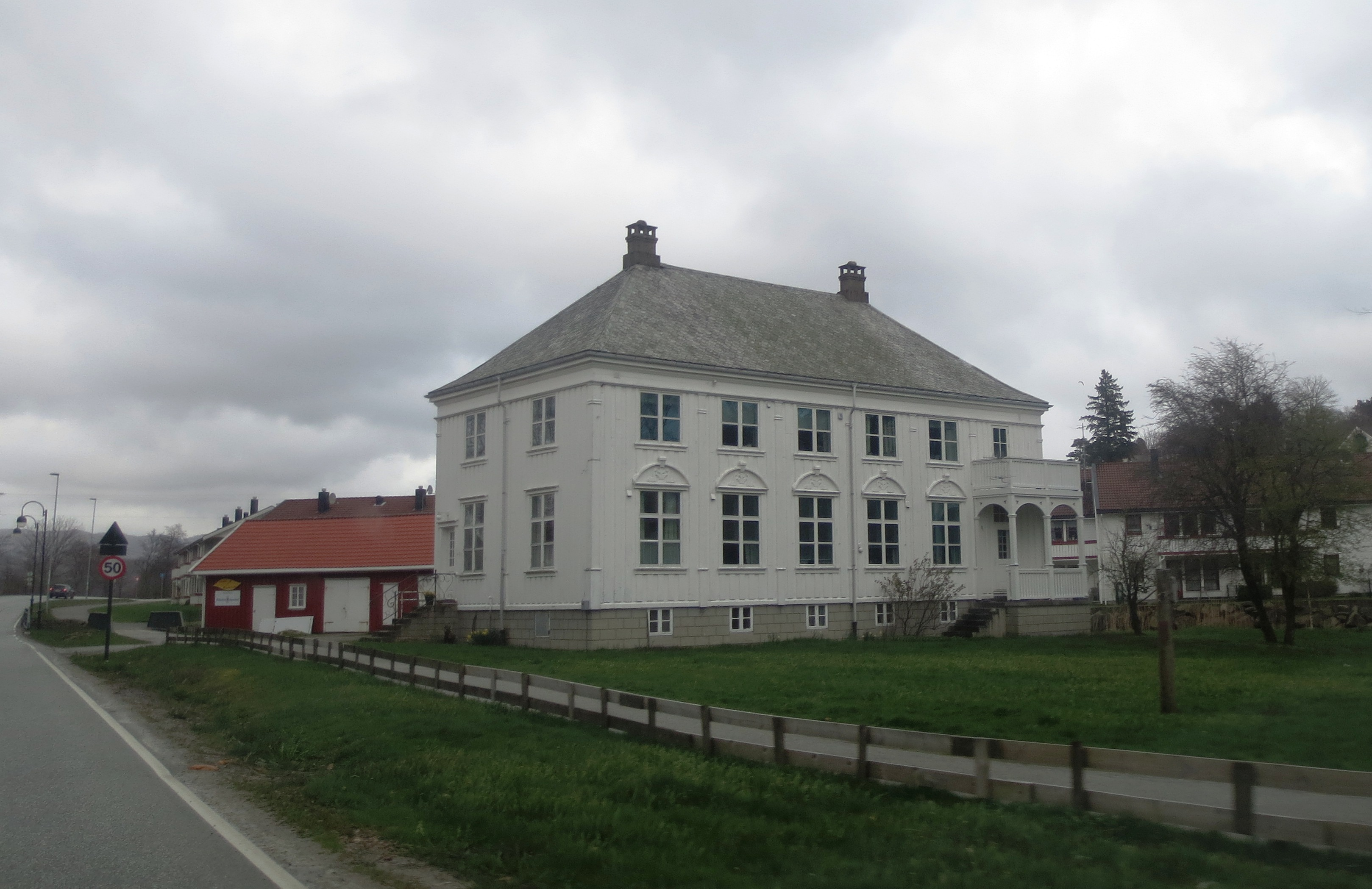 Monumental manor in the settlement of Vanse, - municipality of Farsund, Norway